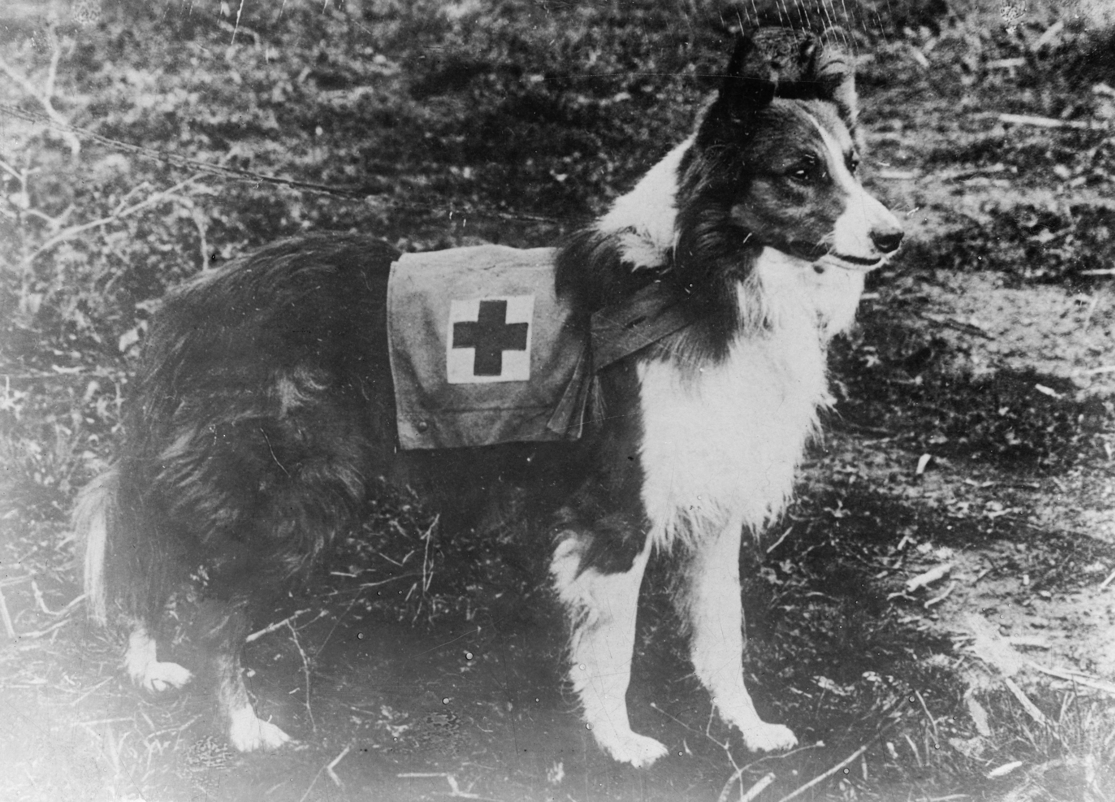 Red Cross dog - Italy. Photo cropped from original to remove borders and text.